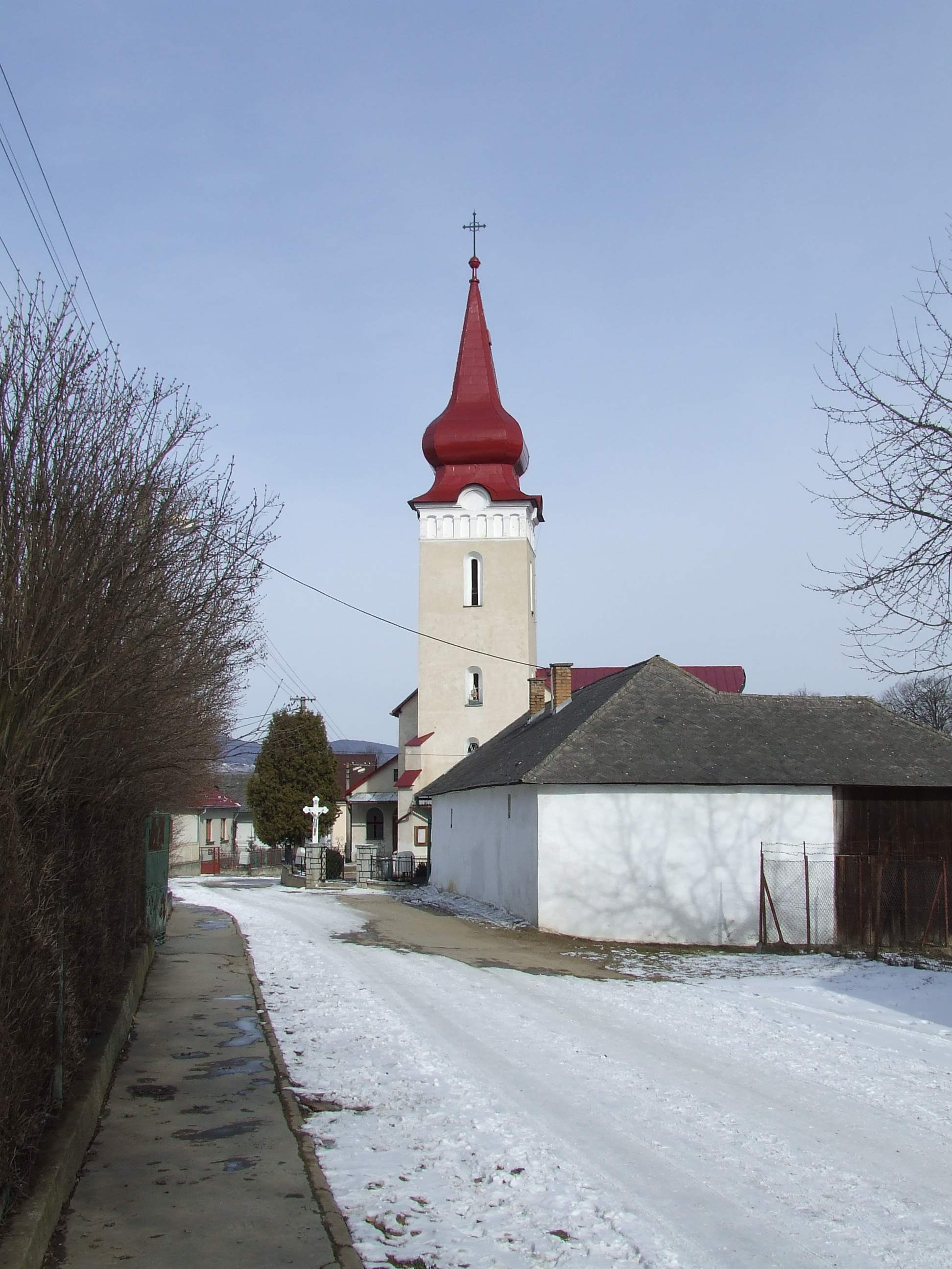 Church in Ostrovany, Slovakia This medium shows the protected monument with the number 708-332/0 in the Slovak Republic.